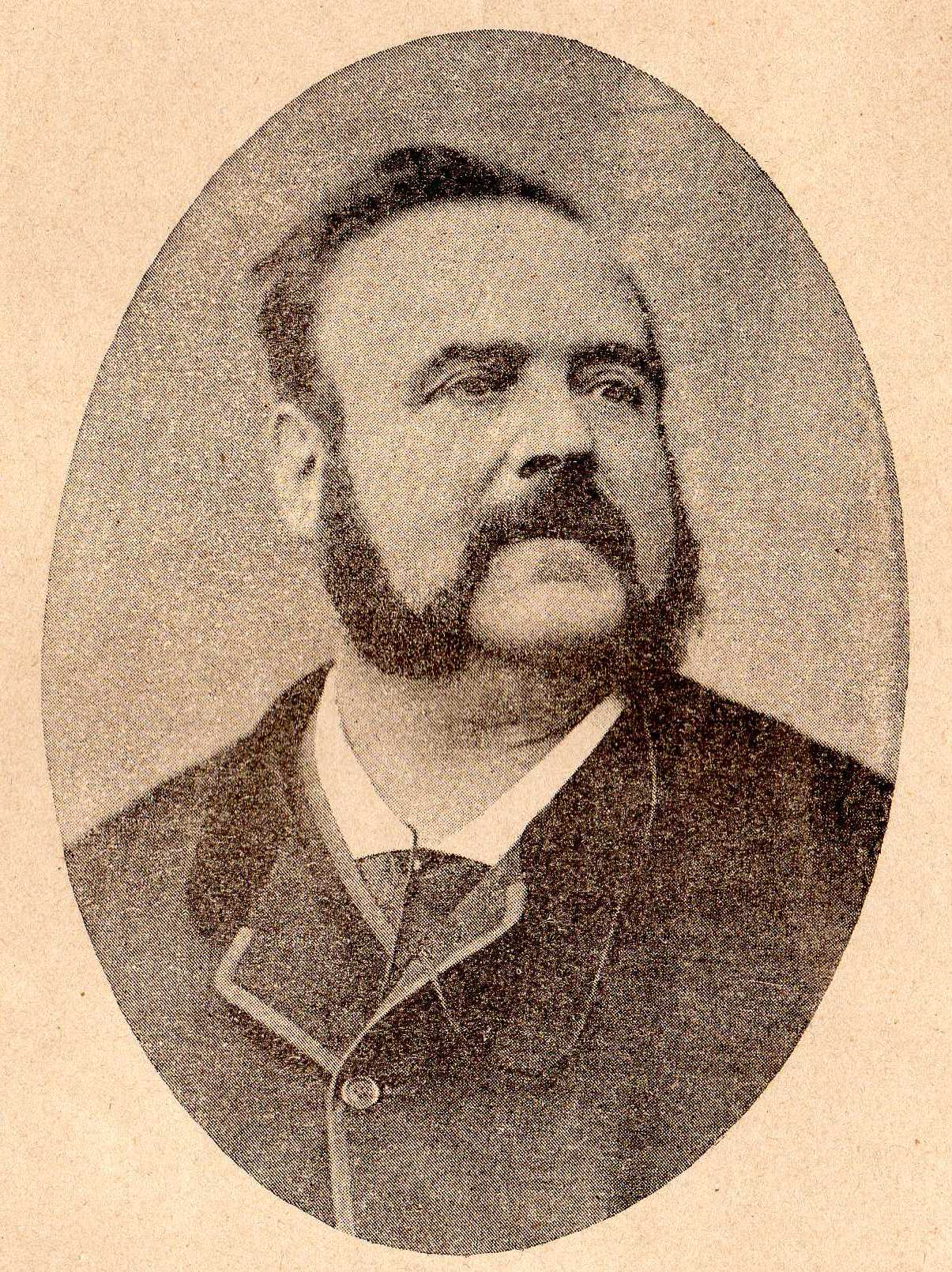 Victor Levèra's portrait (taken from Flous del Mietjoun, 1888)